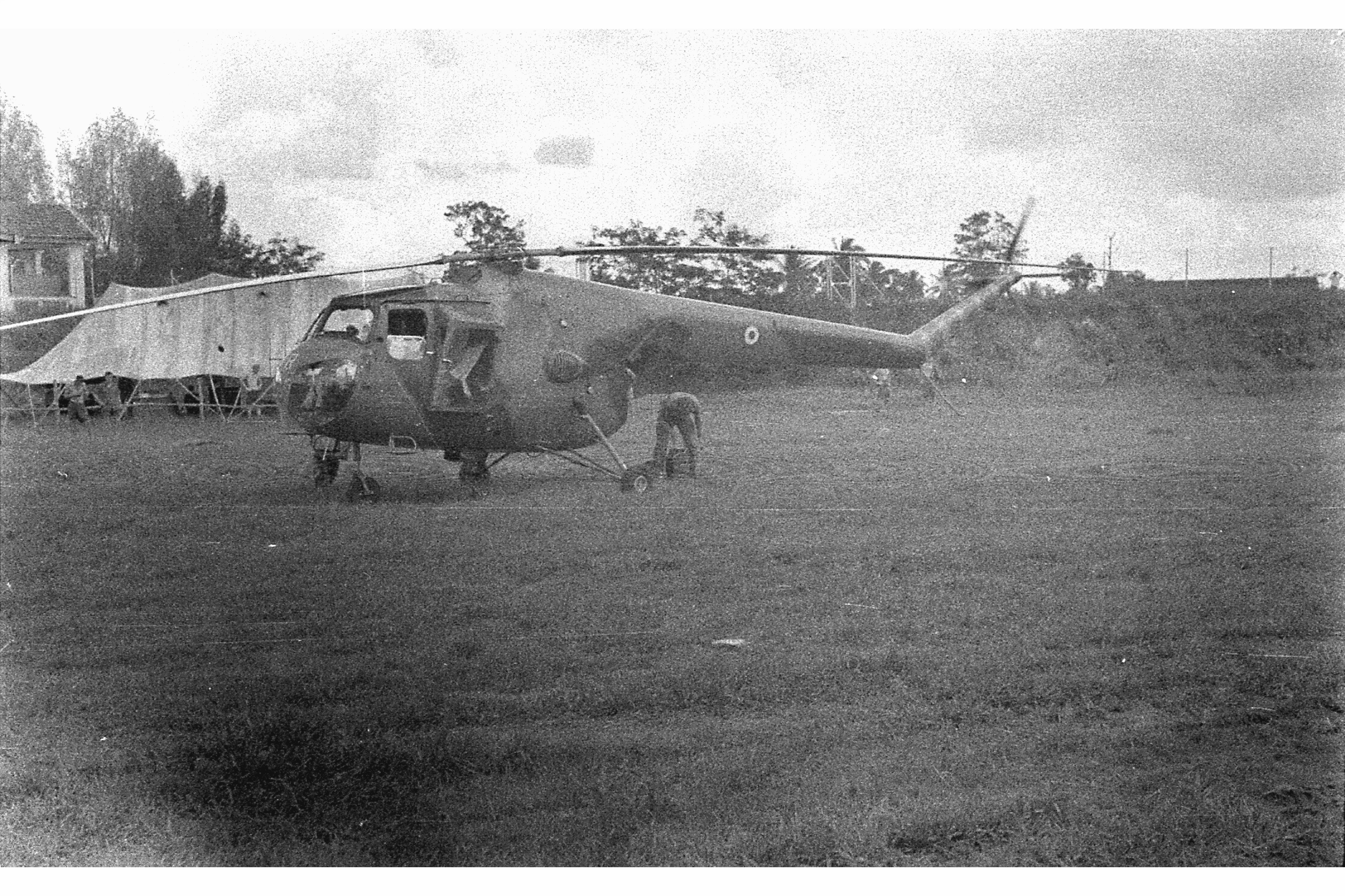 A Bristol Sycamore Helicopter, as photographed by Paul Hadfield during his time in the HM Forces.